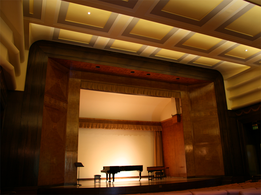 The concert hall at the Barber Institute of Fine Arts